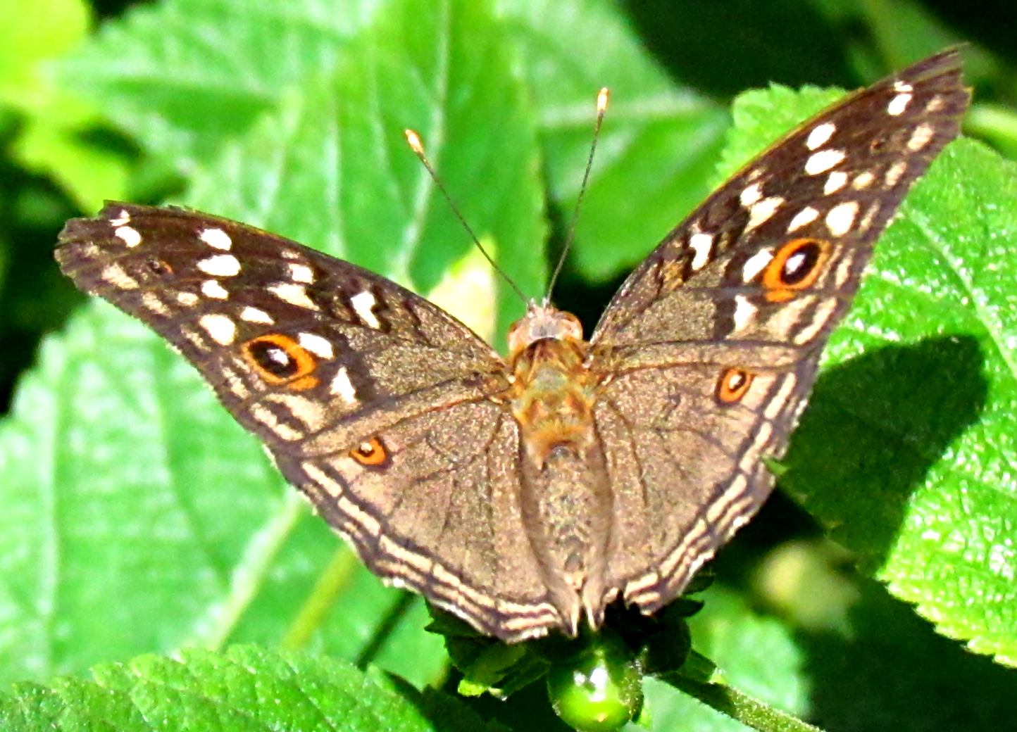 Lemon Pansy (Junonia lemonias)